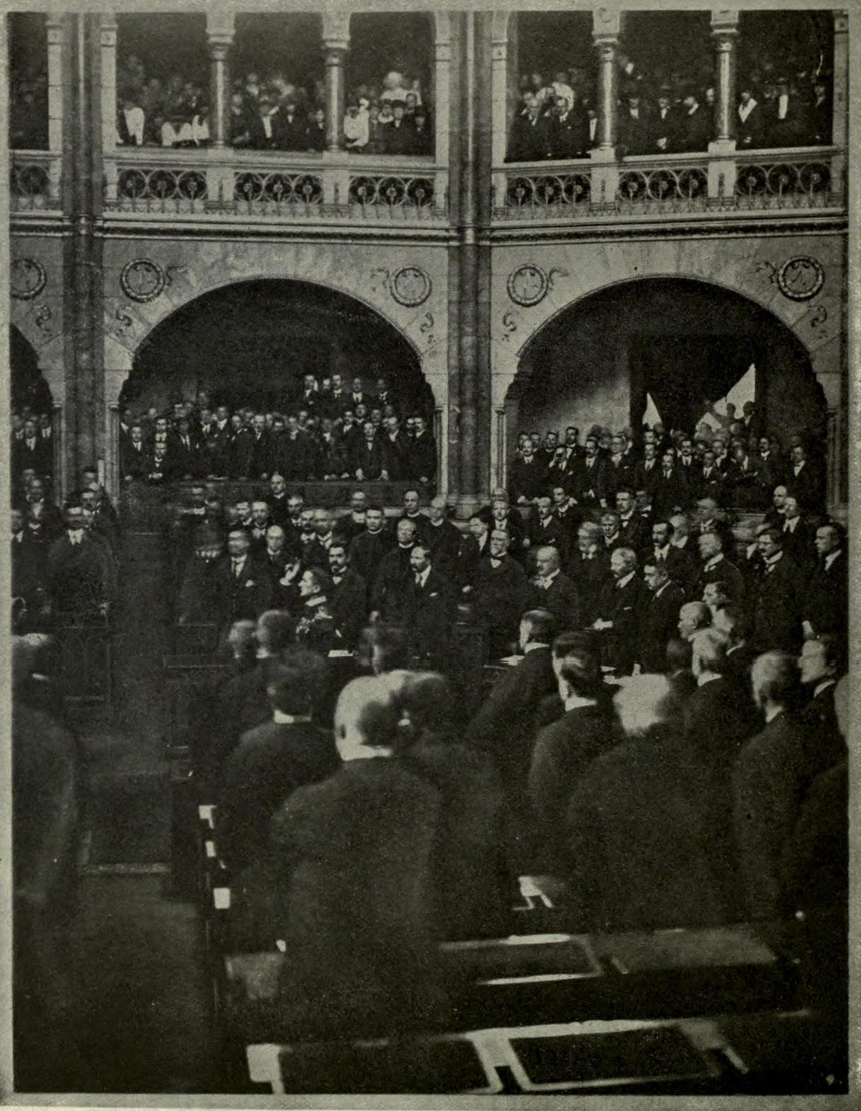 Admiral Horthy takes the oath as Regent of Hungary, march 1st 1920.